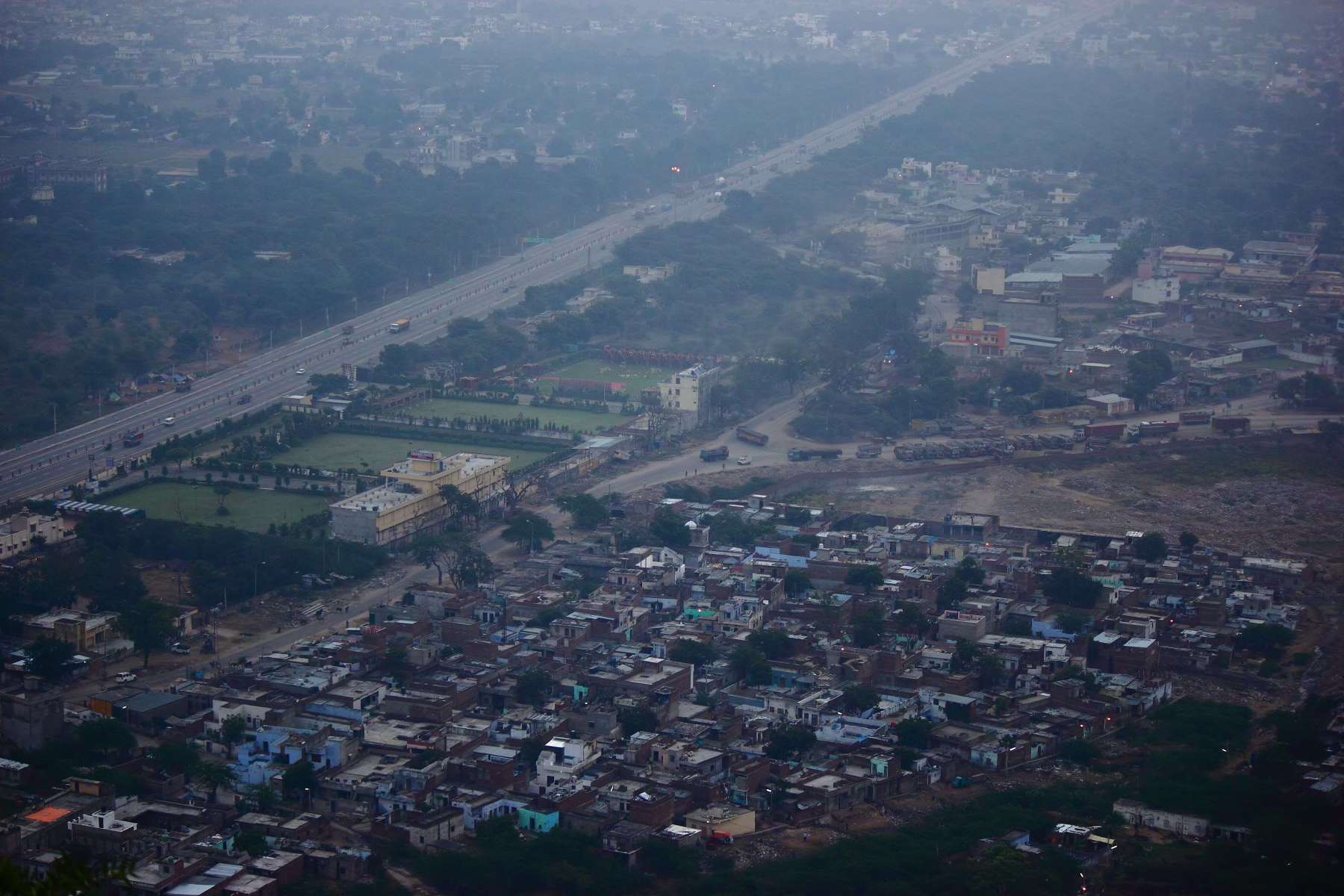 Chulgiri near Pink City Jaipur India, NH 11 Jaipur-Agra Highway. Former NH 11 Agra to Jaipur has been renumbered as NH 21